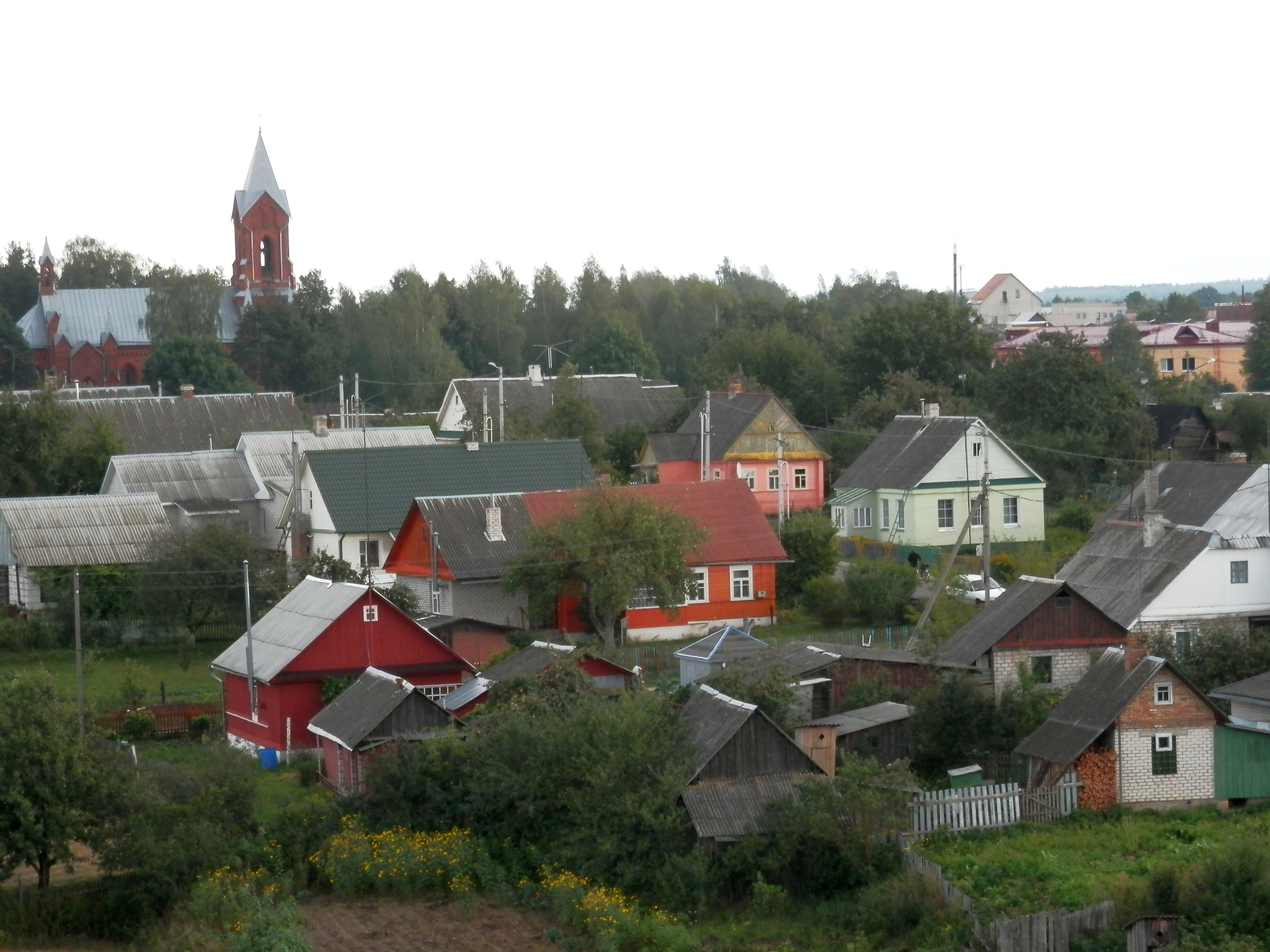 Ivianiec - in the town